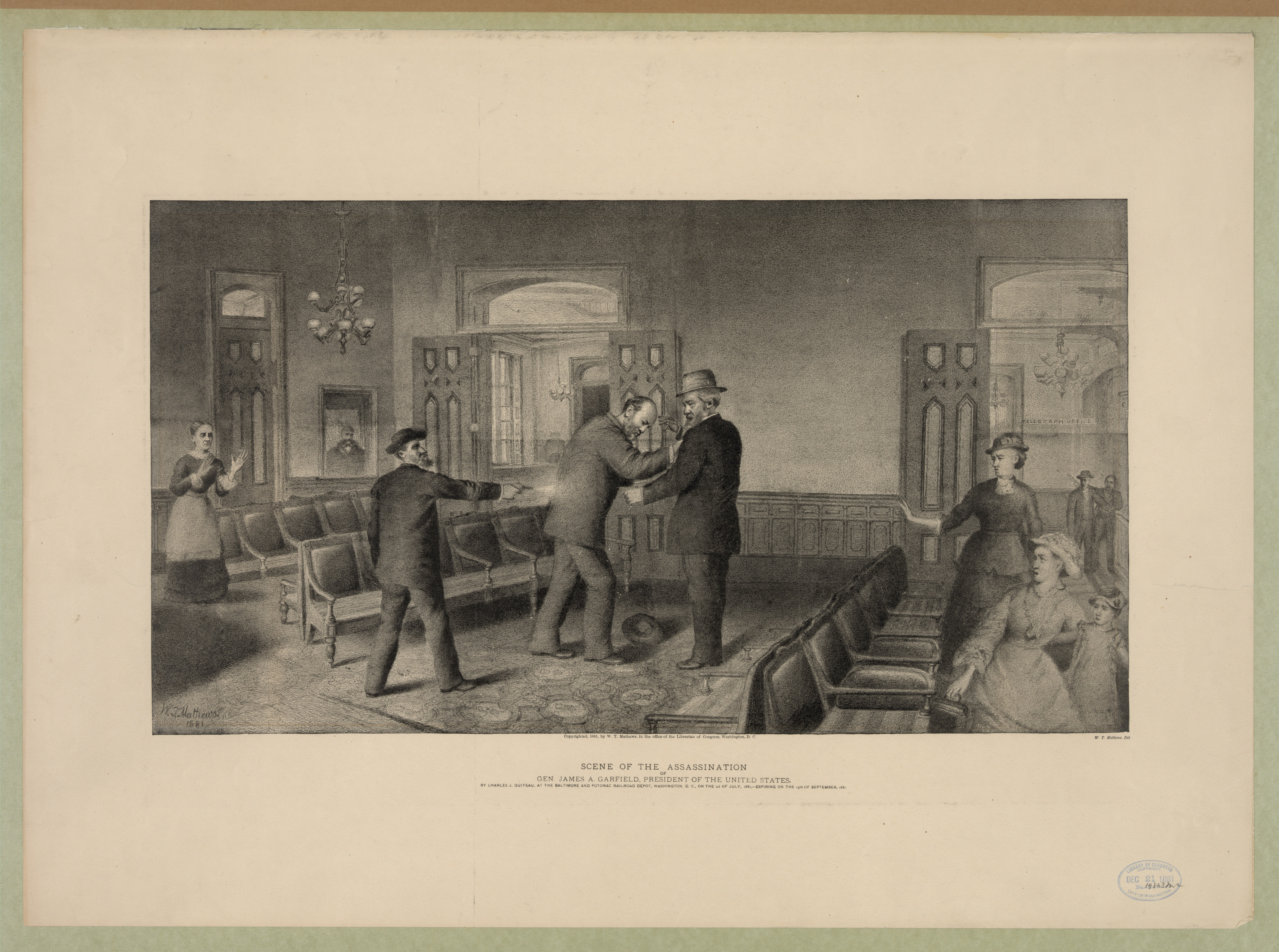 Title: Scene of the assassination of Gen. James A. Garfield, President of the United States Physical description: 1 print. Notes: Associated name on shelflist card: Mathews.; This record contains unverified data from PGA shelflist card.